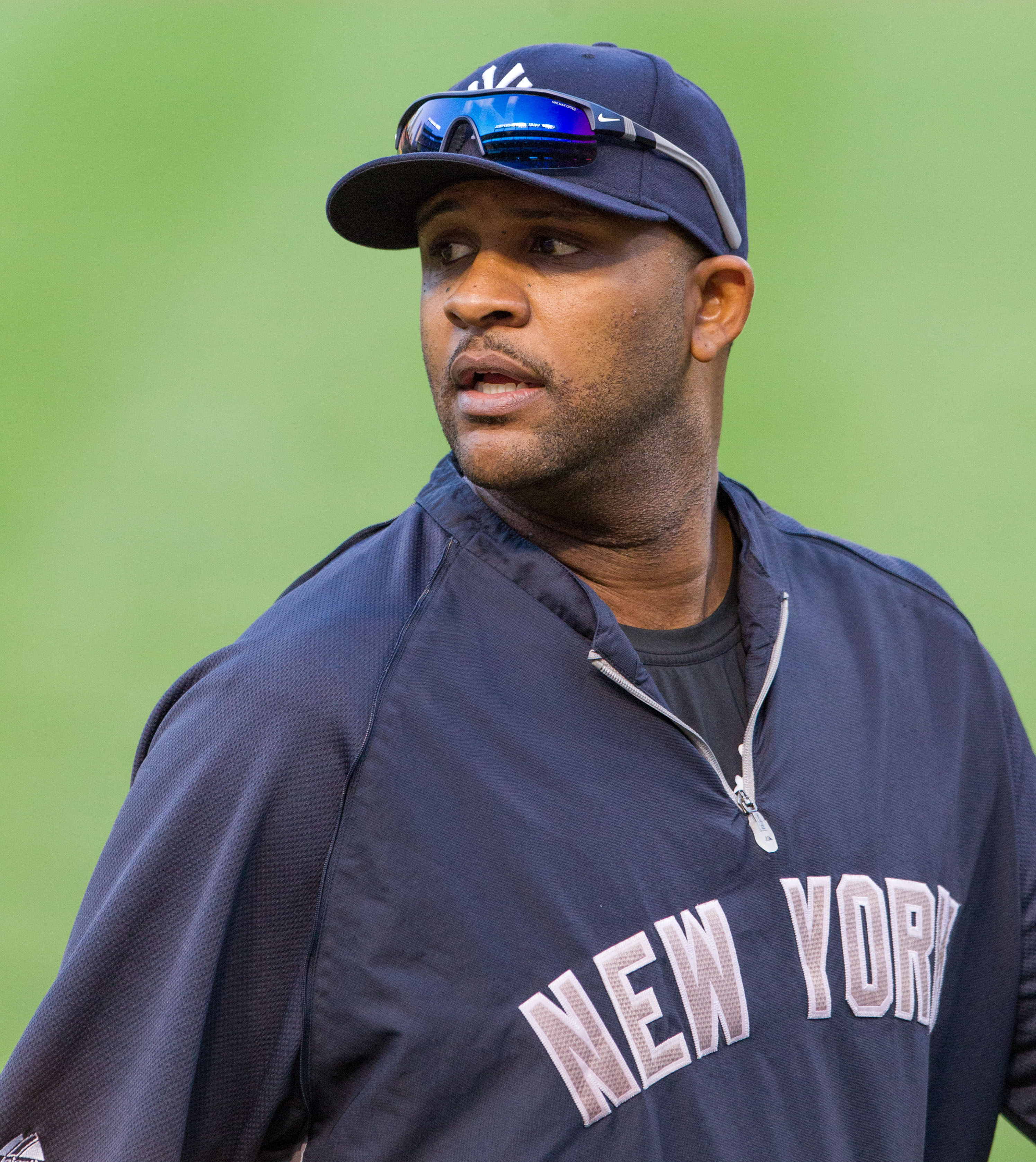 CC Sabathia